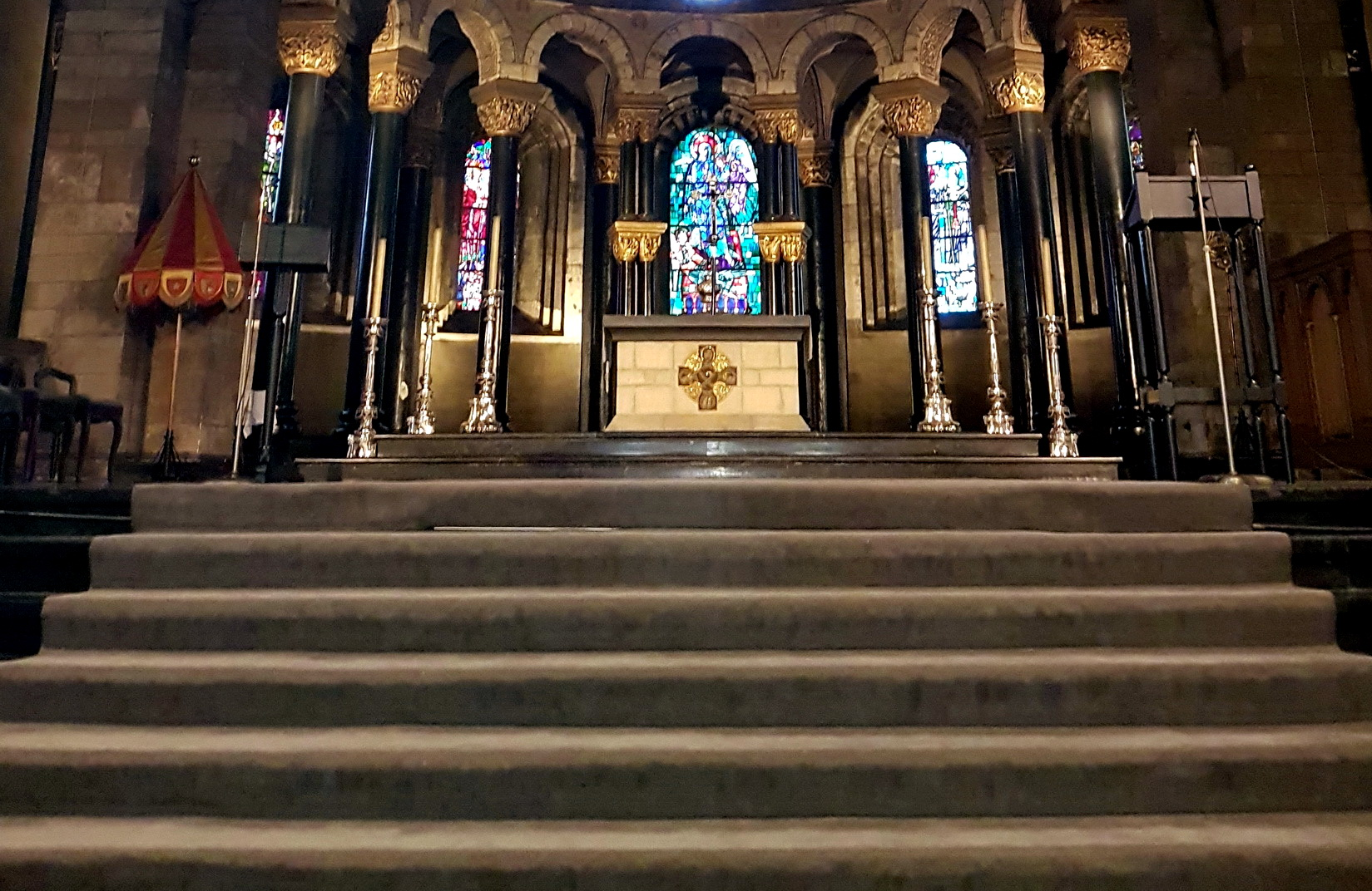 View of the elevated choir of the Basilica of Our Lady in Maastricht, the Netherlands.